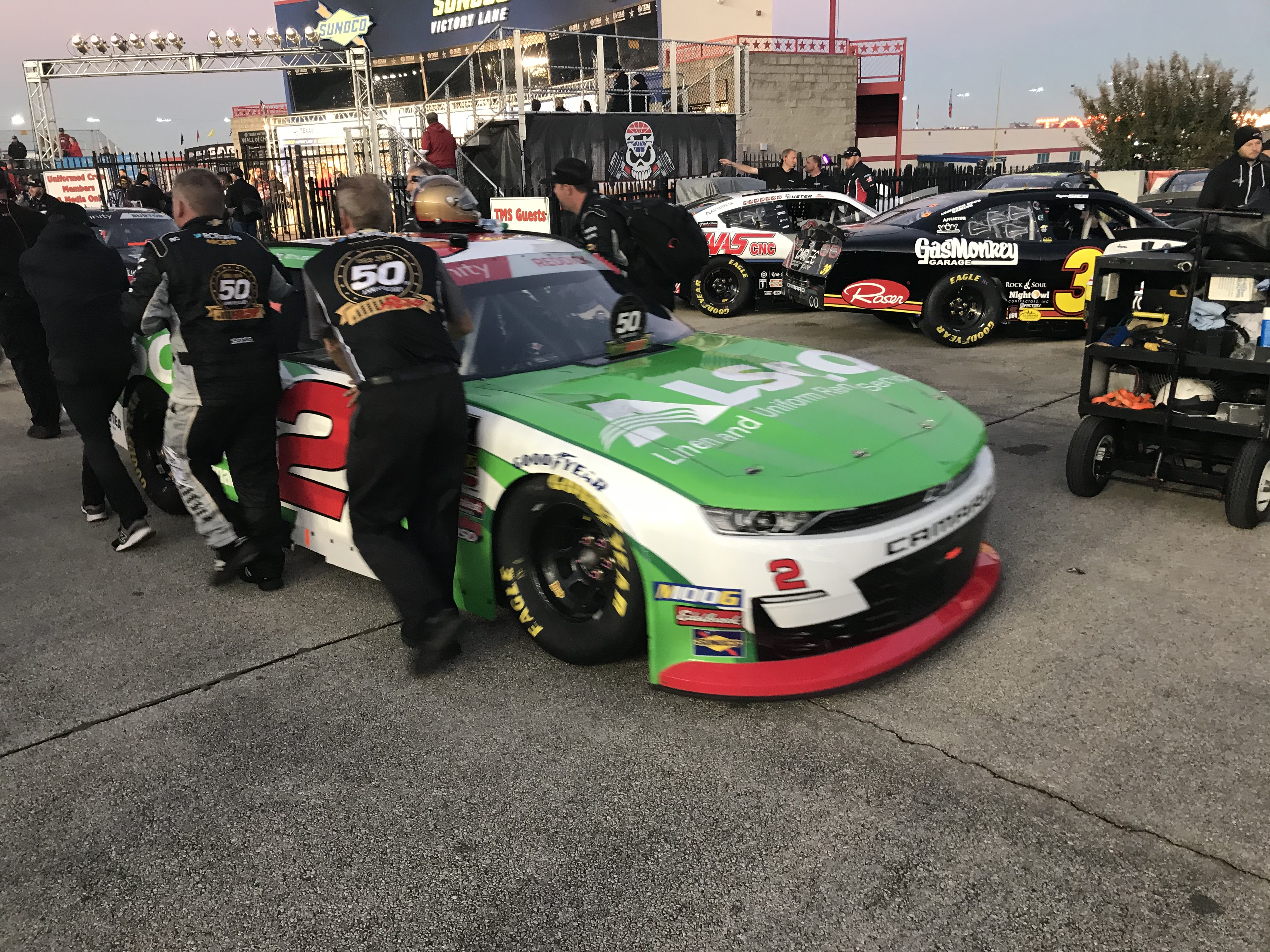 Tyler Reddick's 2019 NASCAR XFINITY Series Playoff car being pushed to the grid for the 2019 O'Reilly 300.